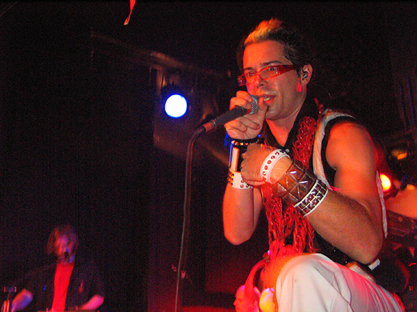 Adam "doseone" Drucker performing at the Knitting Factory NYC (RIP) with project 'subtle'